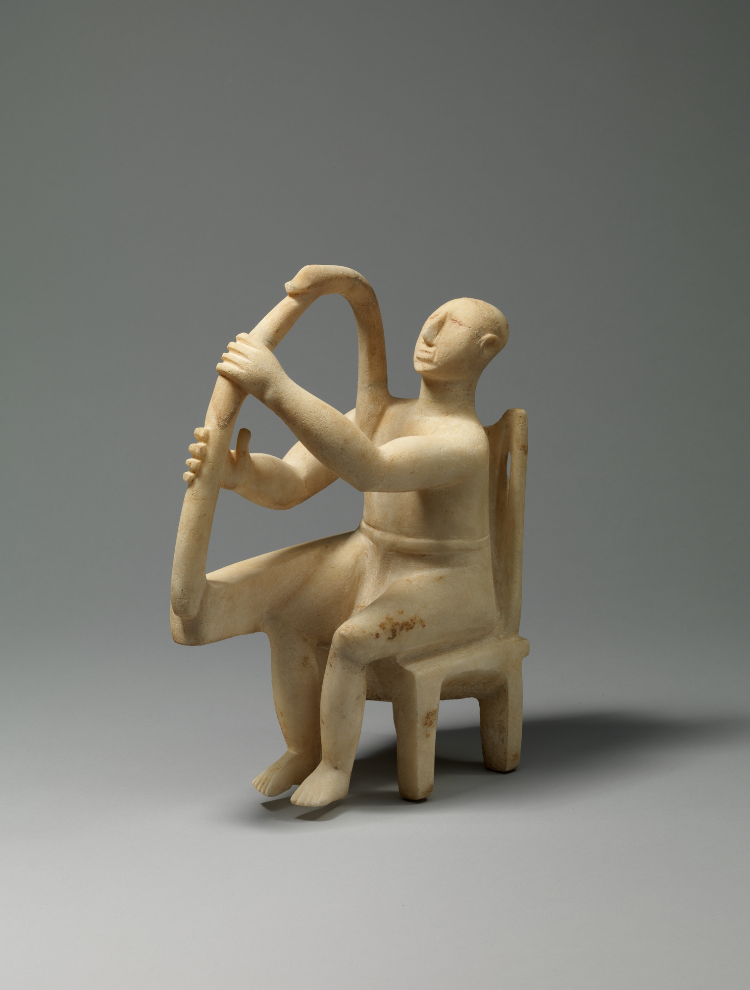 Cycladic; Statuette of a seated harp player; Stone